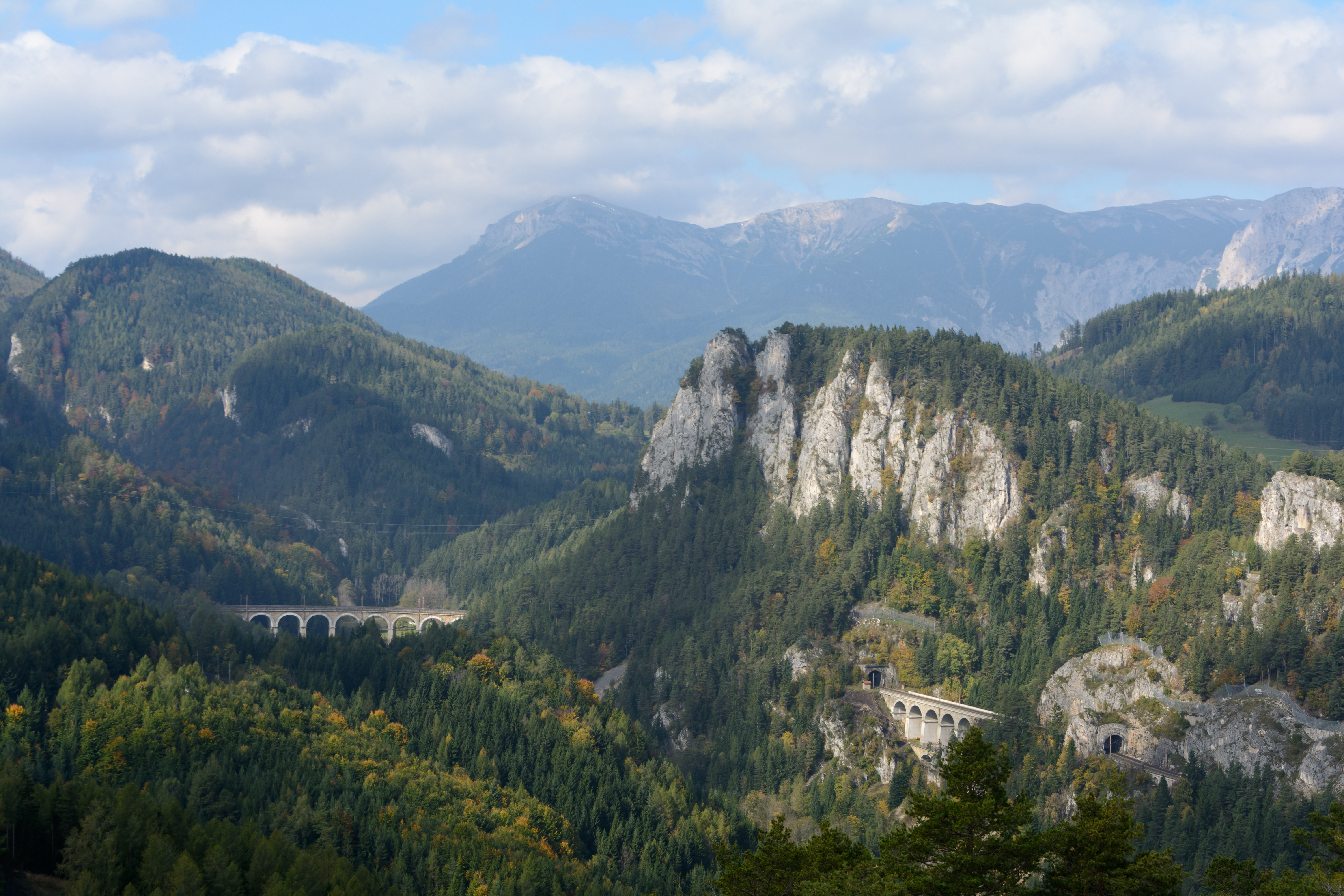 Semmering Railway, Lower Austria: Kalte-Rinne-viaduct, Pollereswand with Polleres-tunnel, the Krausel-Klause-viaduct and the small Krausel tunnel (left to right), in the background the Rax Alp. This scenery was shown on the 20-Schilling-banknote released 1968, and is therefore called 20-Schilling-view.